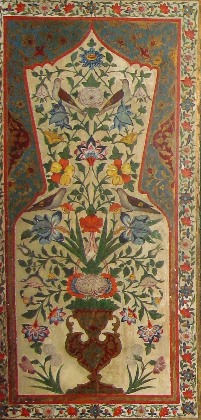 Paintings on the wall of Khan palace in Shaki (Azerbaijan)